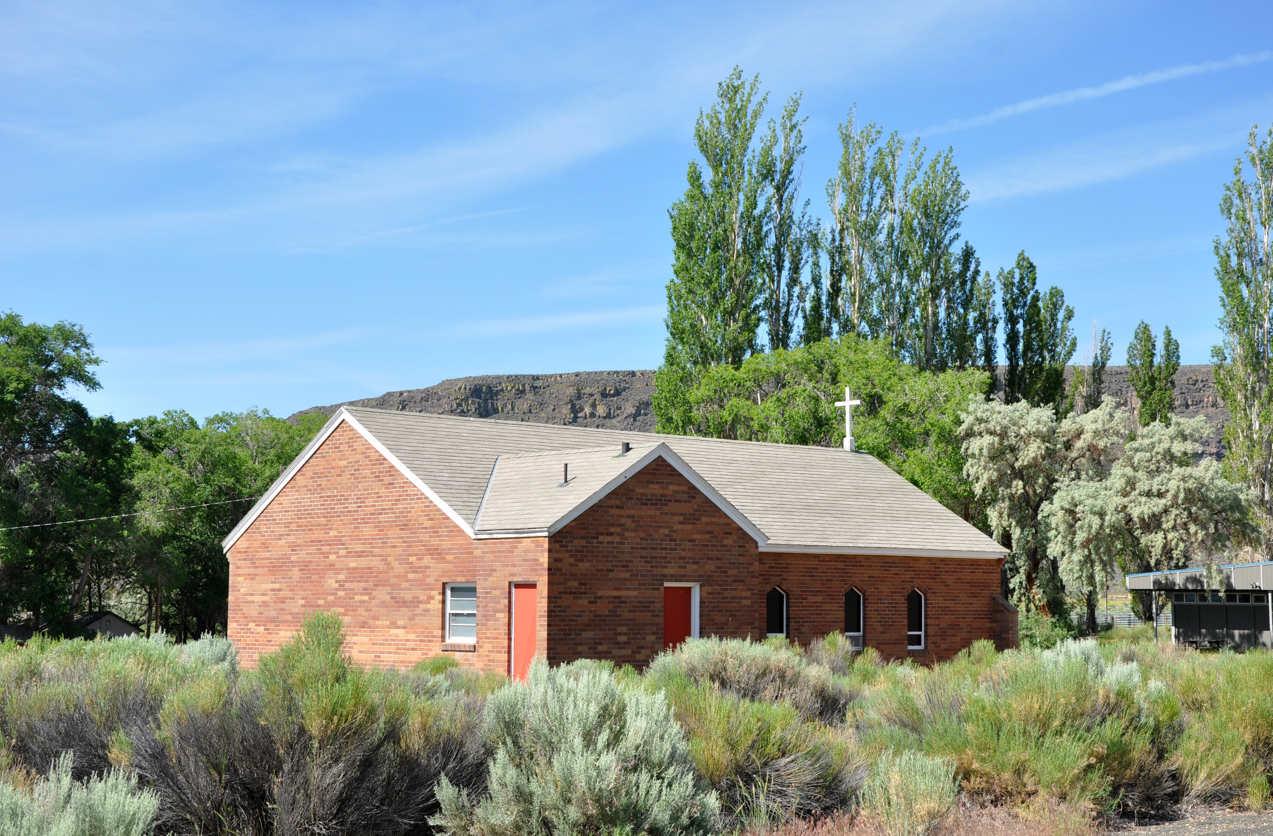 Church of St. Thomas in Plush in the U.S. state of Oregon. View is to the southwest.